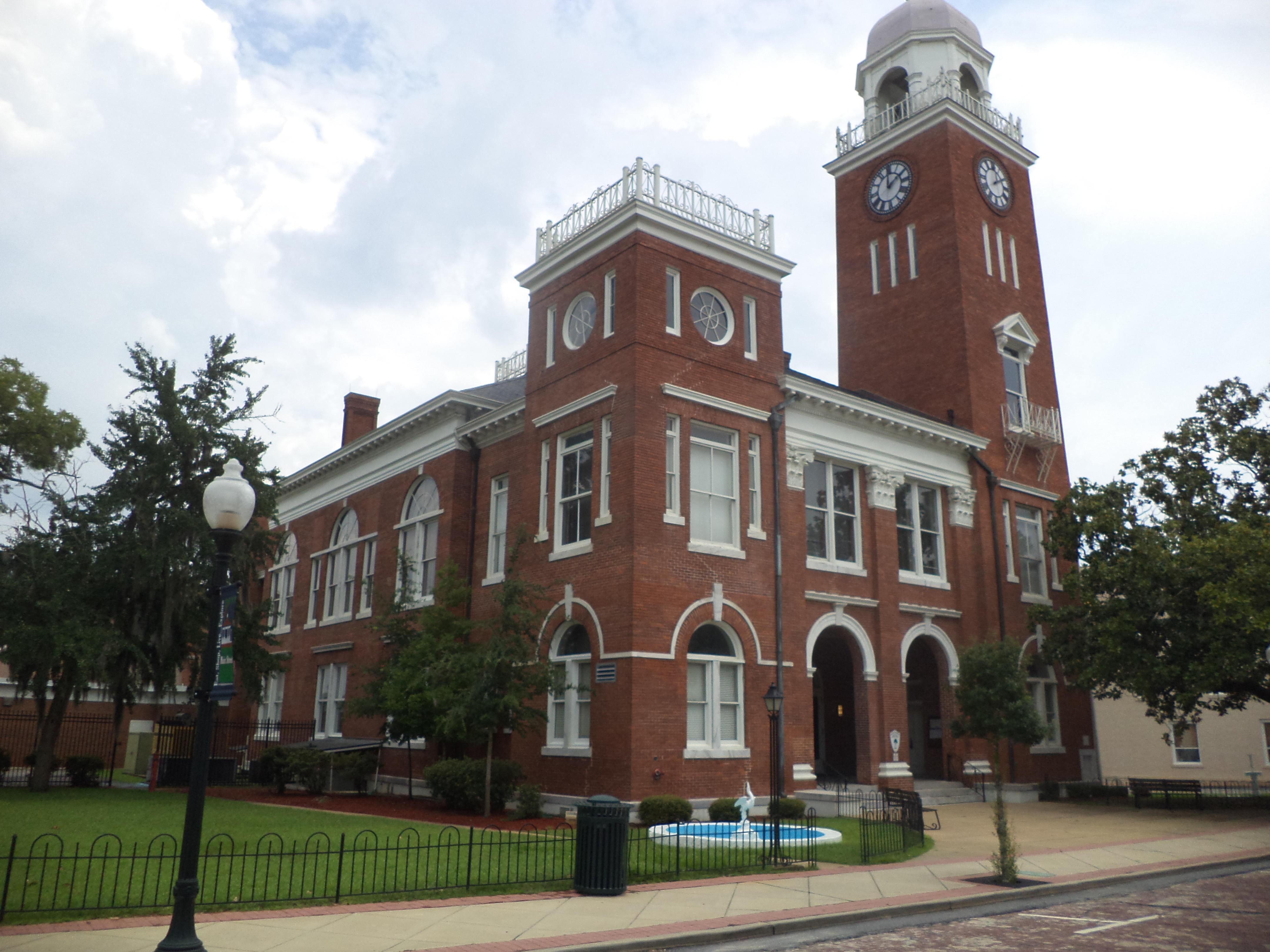 Decatur County Courthouse (NW corner), Bainbridge, Decatur County, Georgia